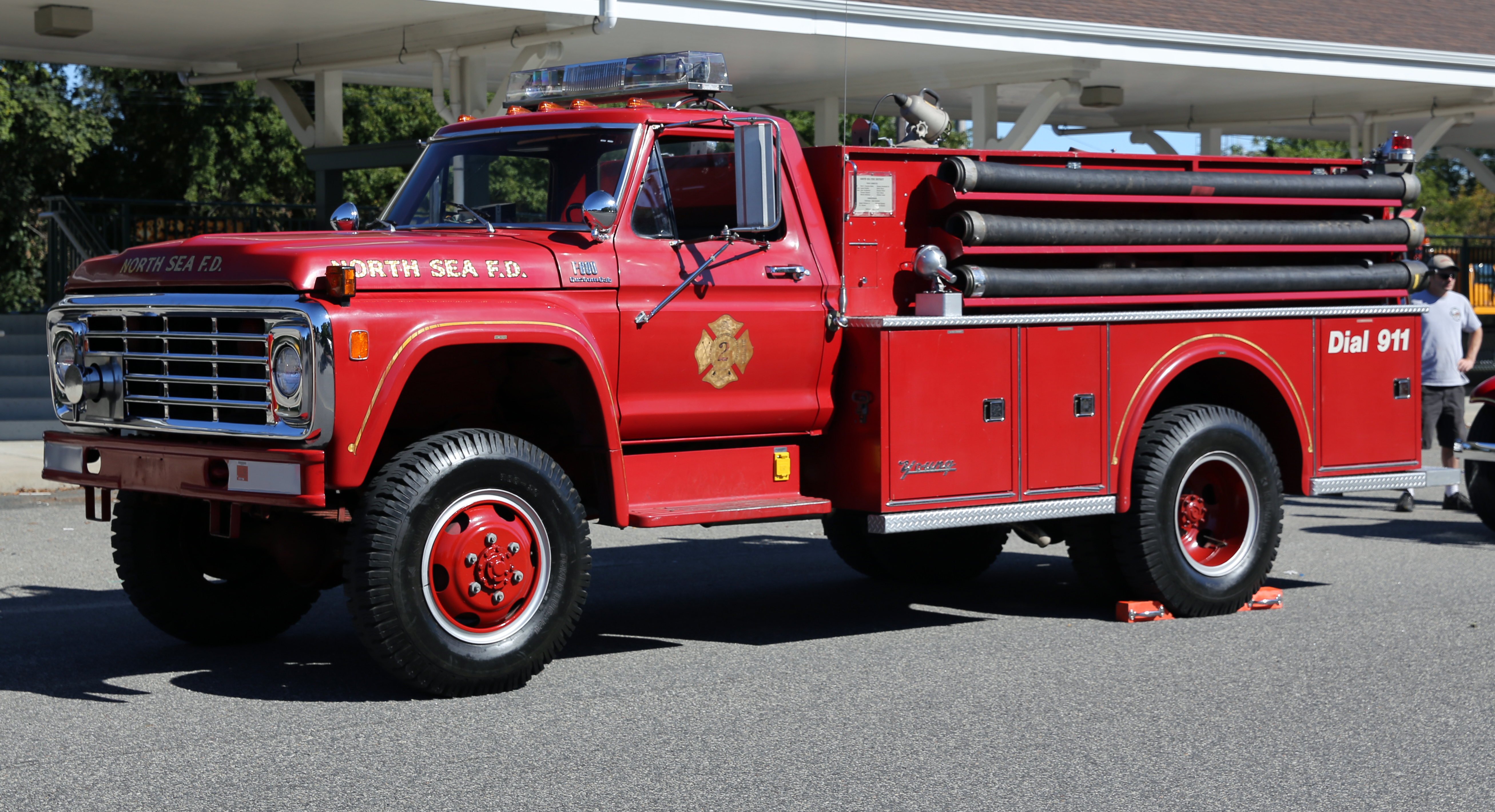 1976 Ford/Young F-600 Custom Cab pumper belonging to the North Sea Fire Department (Suffolk County, Long Island, NY), on a parade at the Southampton LIRR station.